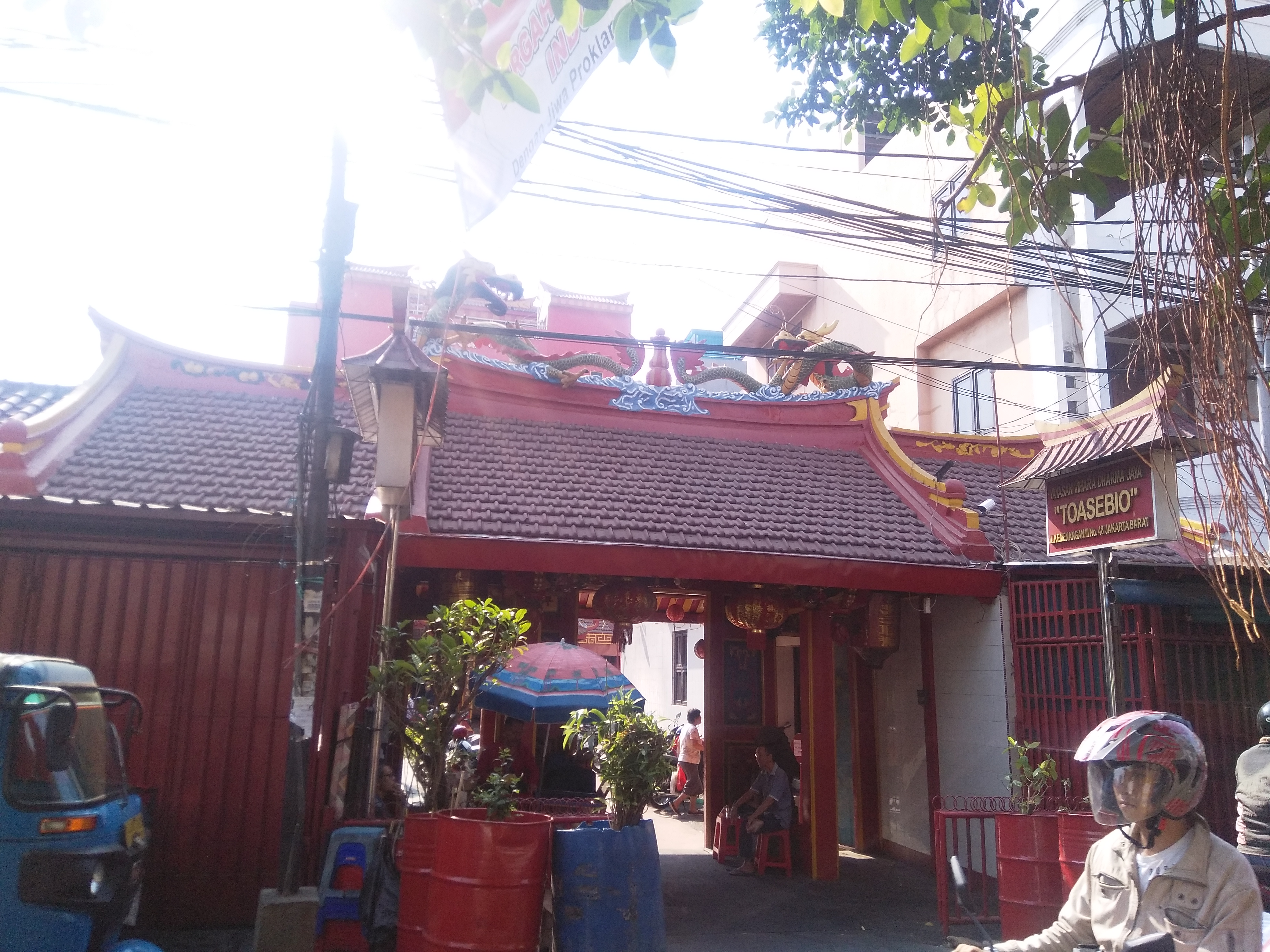 Toasebio temple, Jakarta